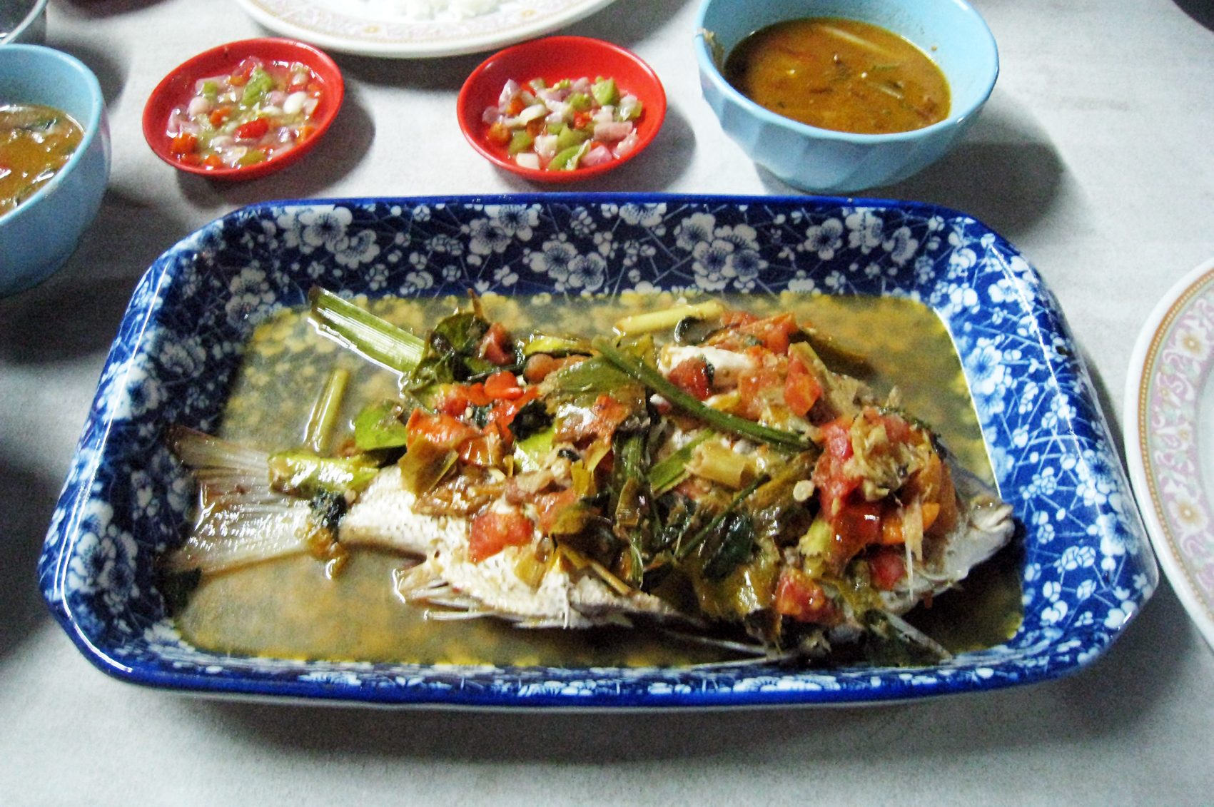 Kakap Woku (Red Snapper Woku), a Manado cuisine spicy seafood dish. Indonesia.